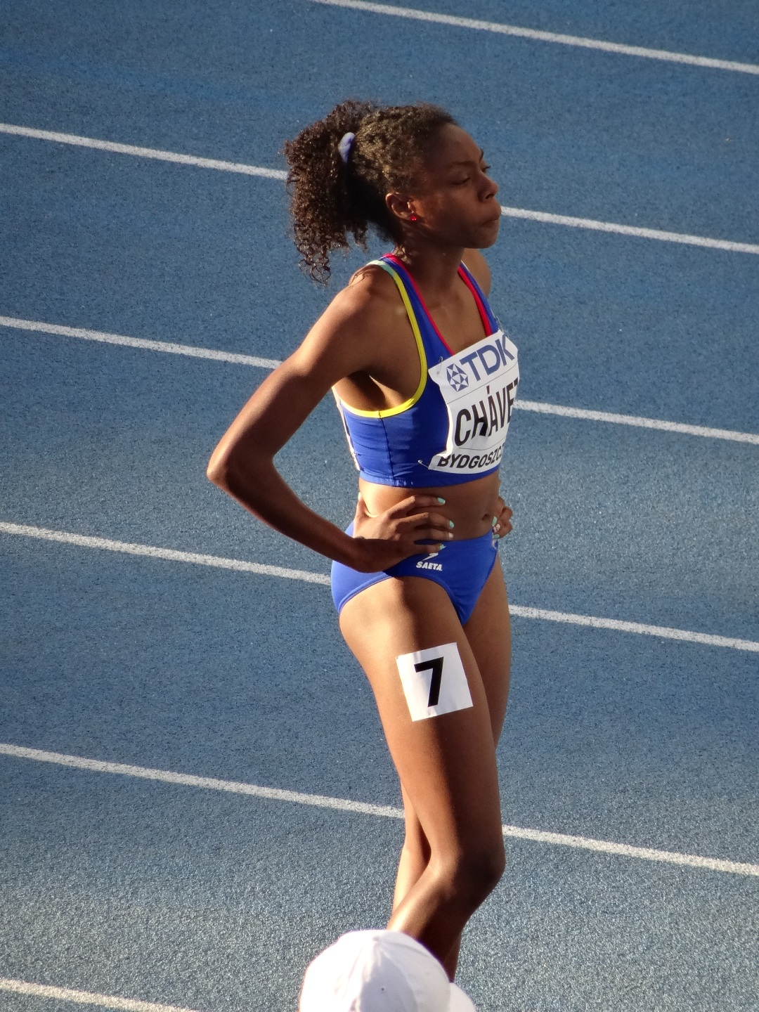 2016 IAAF World U20 Championships in Bydgoszcz, 400m women qualifications